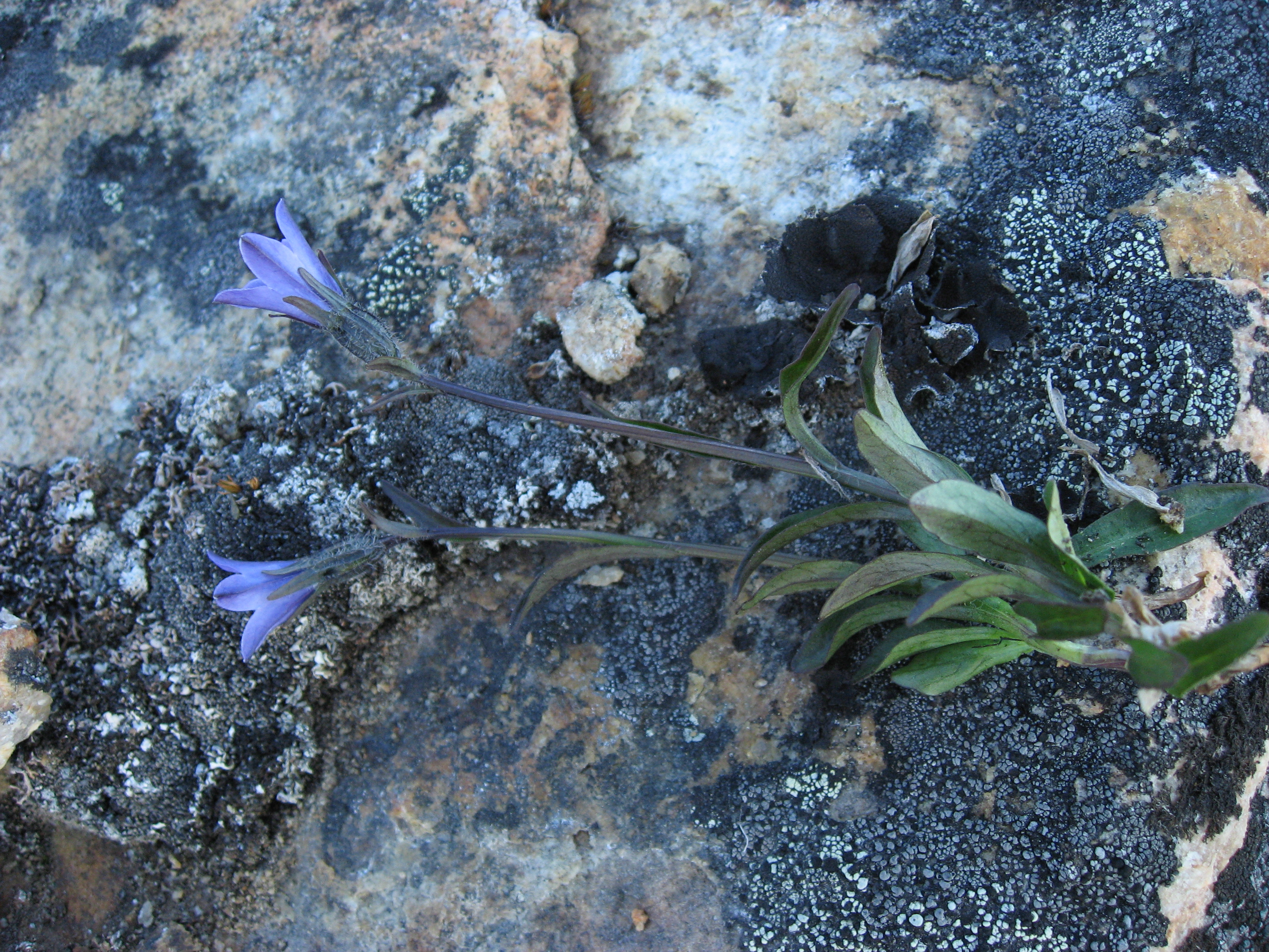 Campanula uniflora photograped near Upernavik, Greenland.